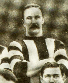 Photograph of Ernie Rudduck in 1907.